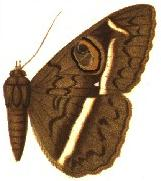 PLATE CCV.